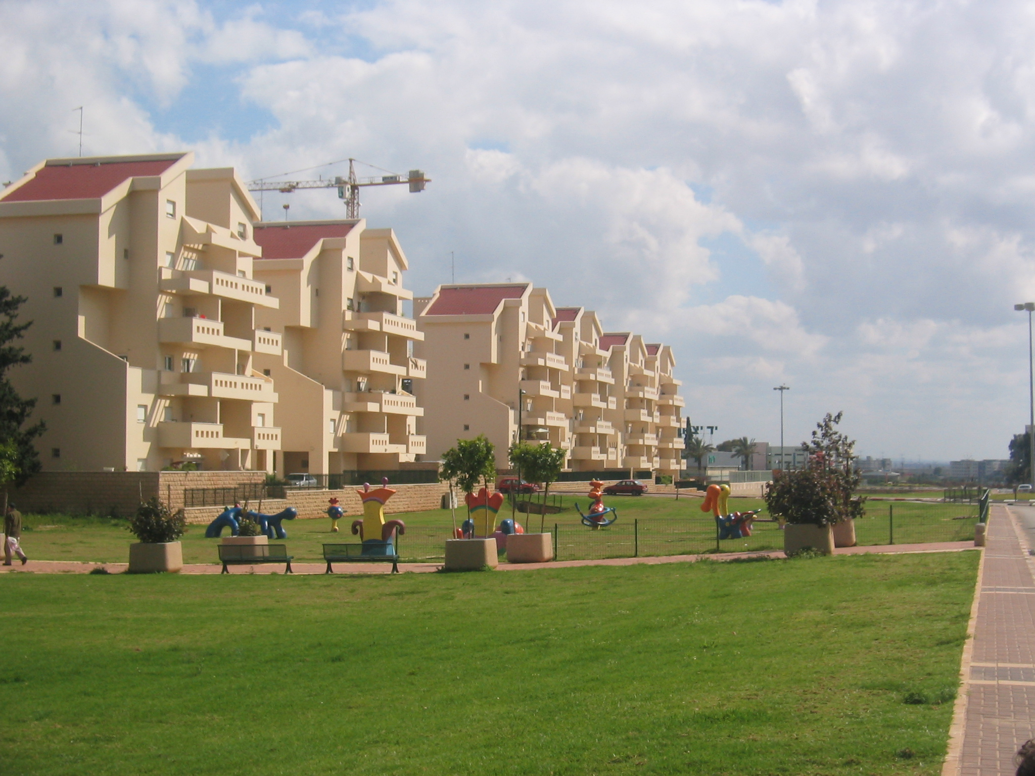 Kfar Saba, Israel, New city district